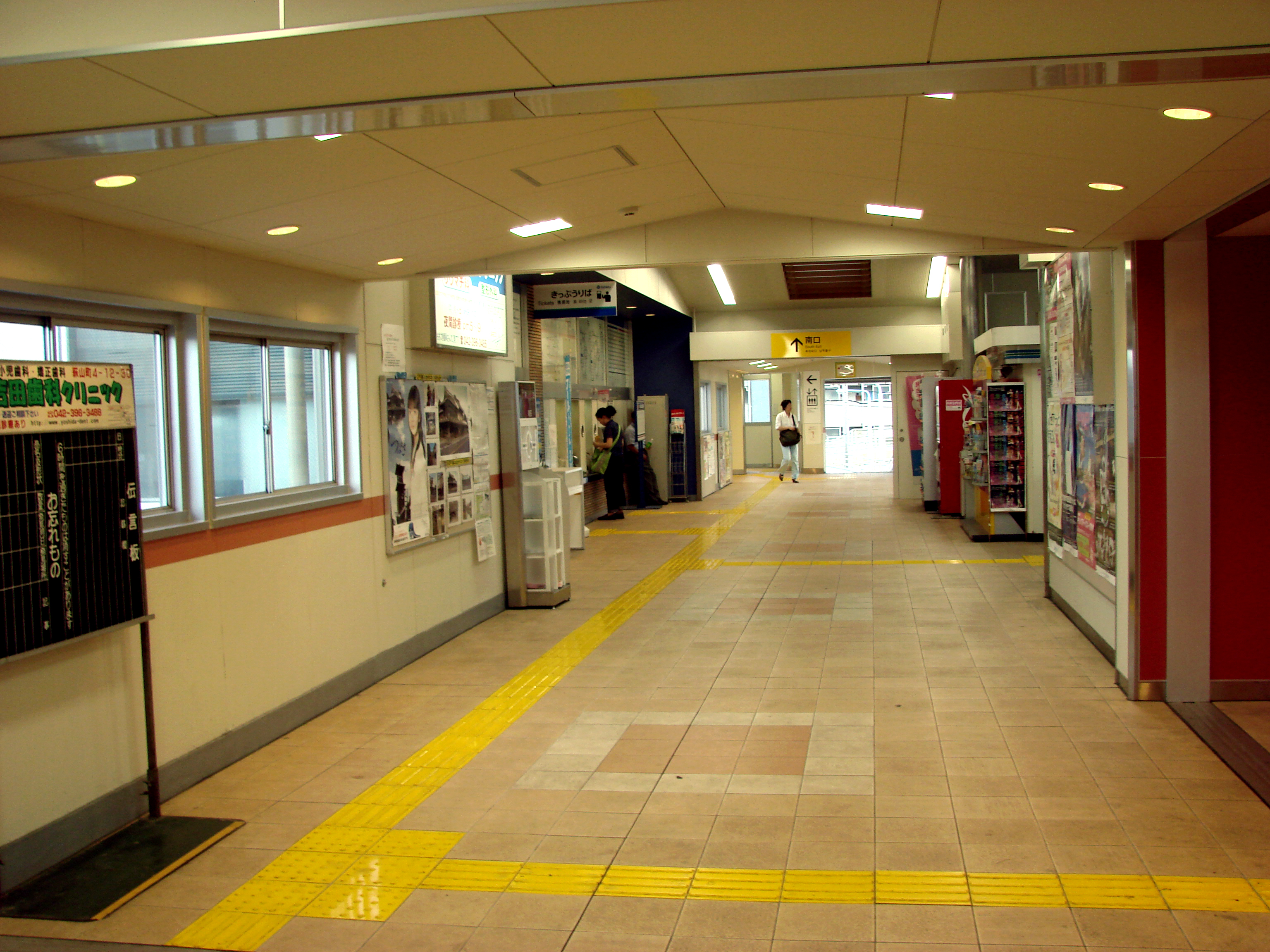 View of the concourse of the Seibu Railway's Hagiyama Station, in Higashimurayama city, Tokyo, Japan. This photograph was taken from the North side 1F in July 2009.